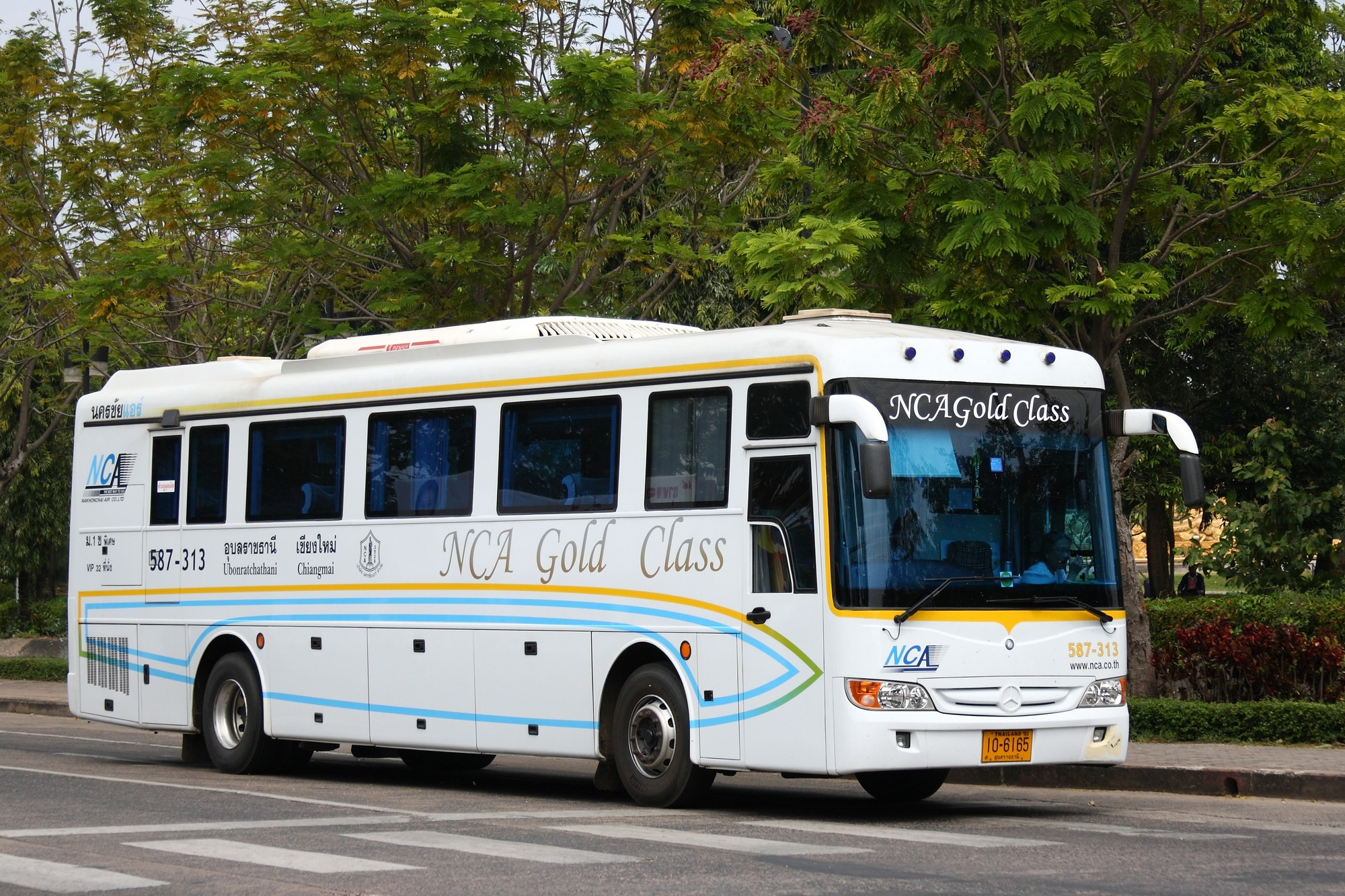 Intercity coach operated by Nakhornchai Air Co in Ubon Ratchathani, Thailand